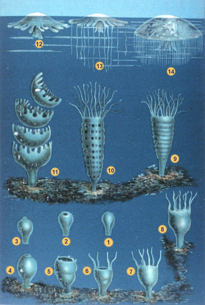 Life cycle of scyphozoans. 1-8 – planula attachment and metamorphosis to scyphistoma stage; 9-10 – scyphistoma strobilation; 11 – ephyra release; 12-14 – transformation of the ephyra into an adult medusa